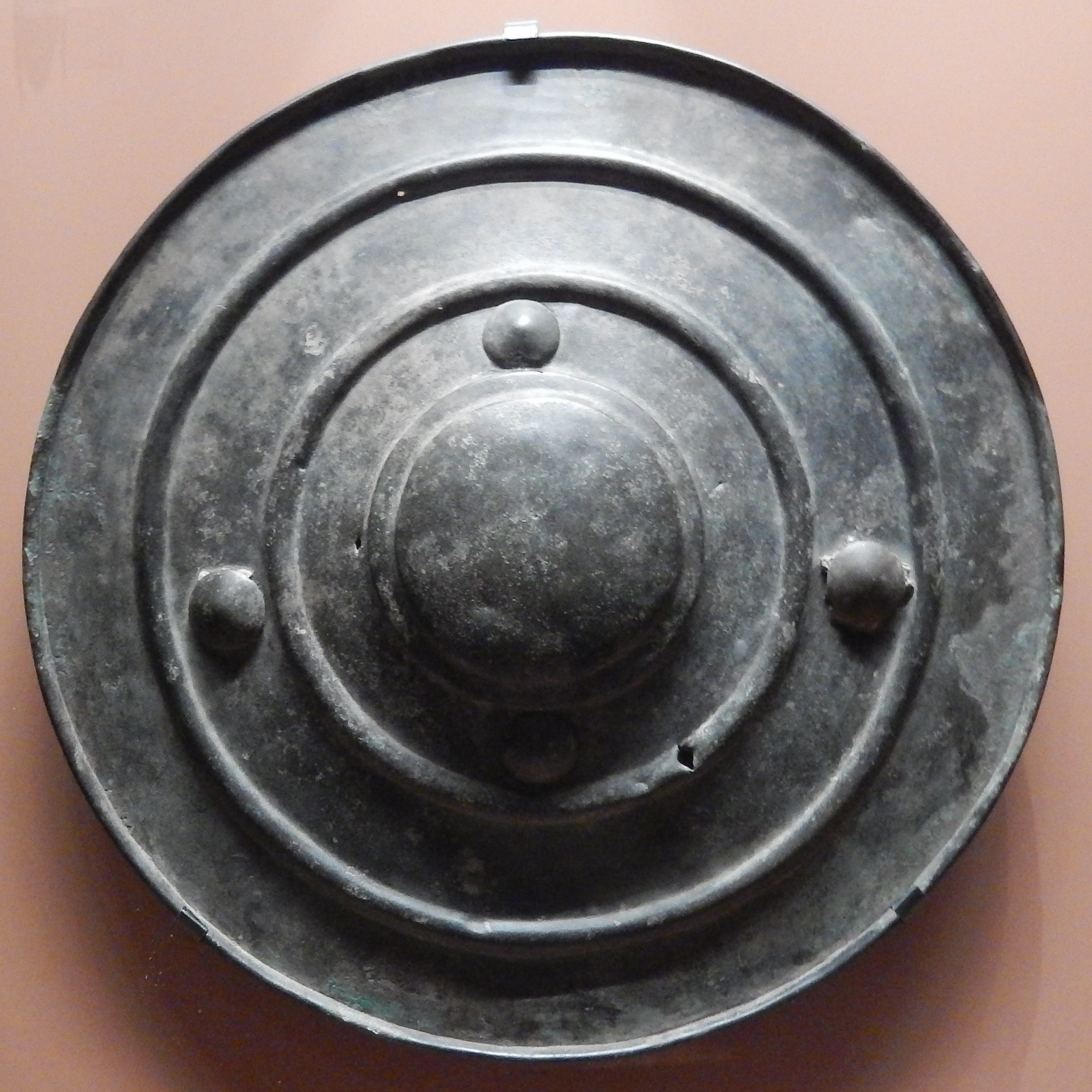 The 'Wittenham Shield', Bronze Age, circa 1400-700 BC. Found in the River Thames at Long Wittenham, Oxfordshire. The shield shows damage by a socketed spearhead. AN1927.2871.